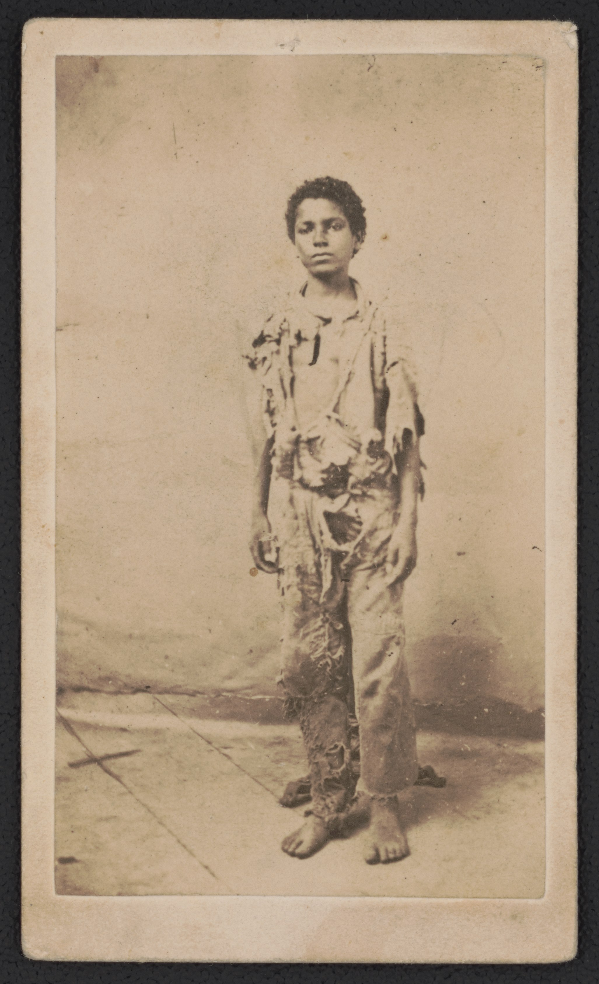 Title: Taylor, young drummer boy for 78th Colored Troops Infantry, in rags Abstract/medium: 1 photograph : albumen print on card mount ; mount 11 x 6 cm (carte de visite format)